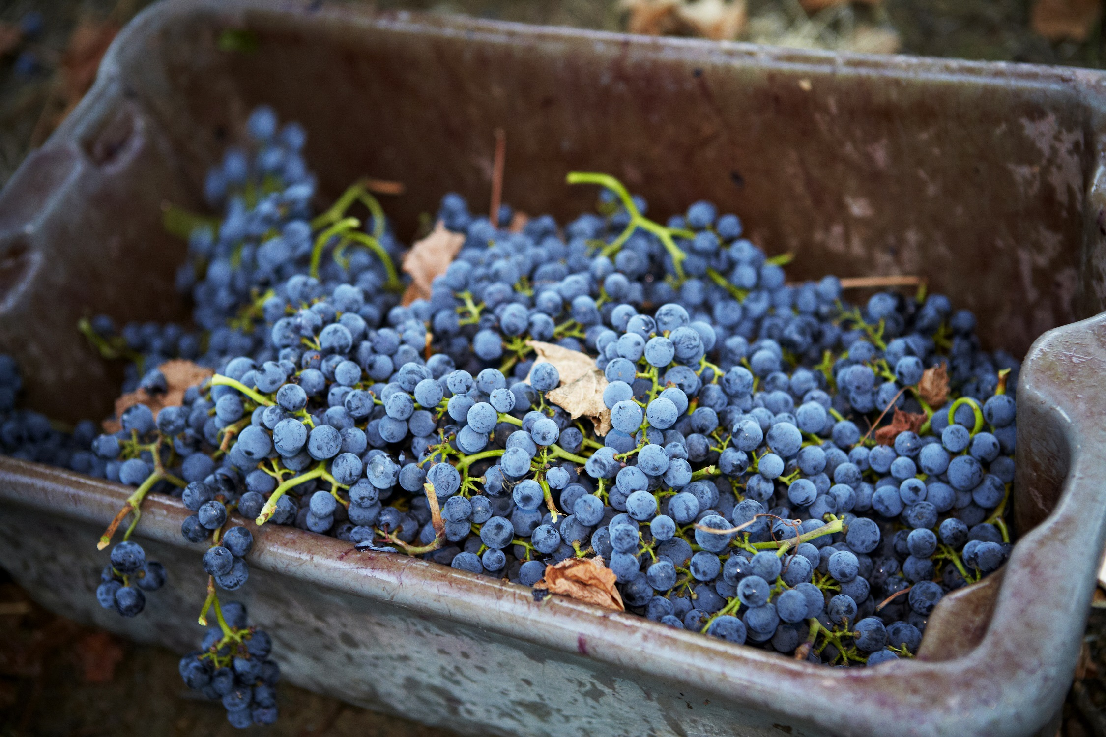 Grapes of Ridge Vineyard